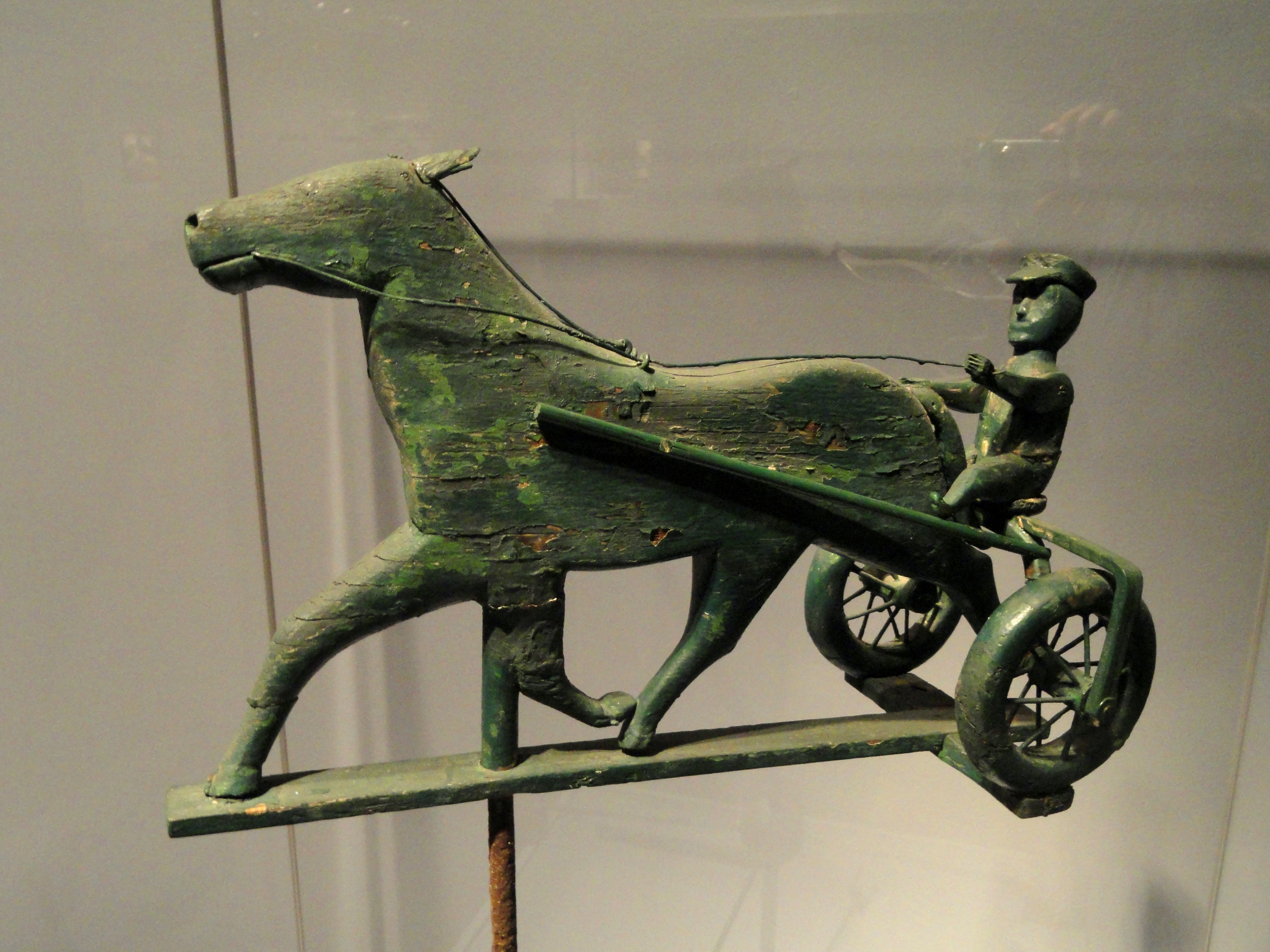 Horse and Sulky weathervane, early 20th century, artist unknown. Folk art in the Smithsonian American Art Museum (National Portrait Gallery), Washington, DC, USA.